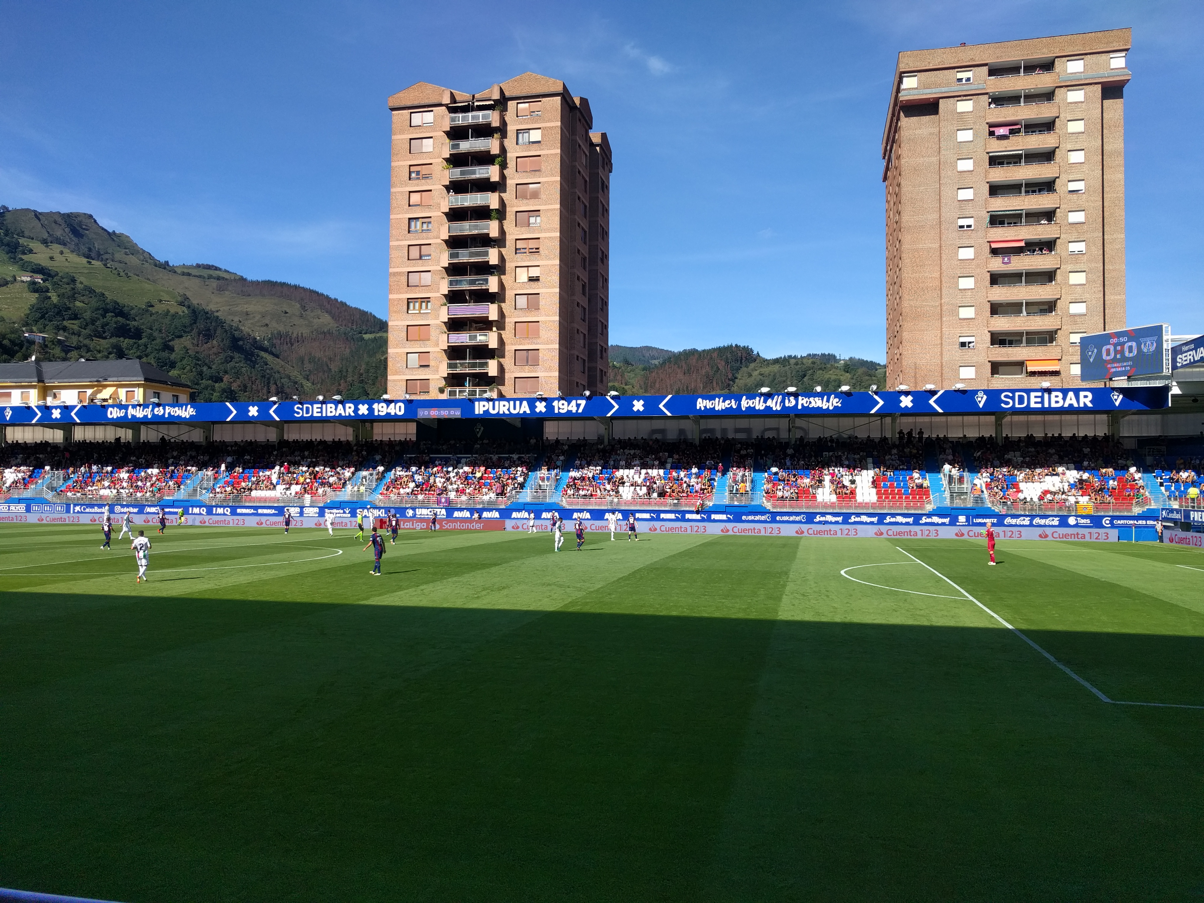 Match of Primera División, LaLiga 2018-19, SD Éibar 1:0 CD Leganés, Ipurúa